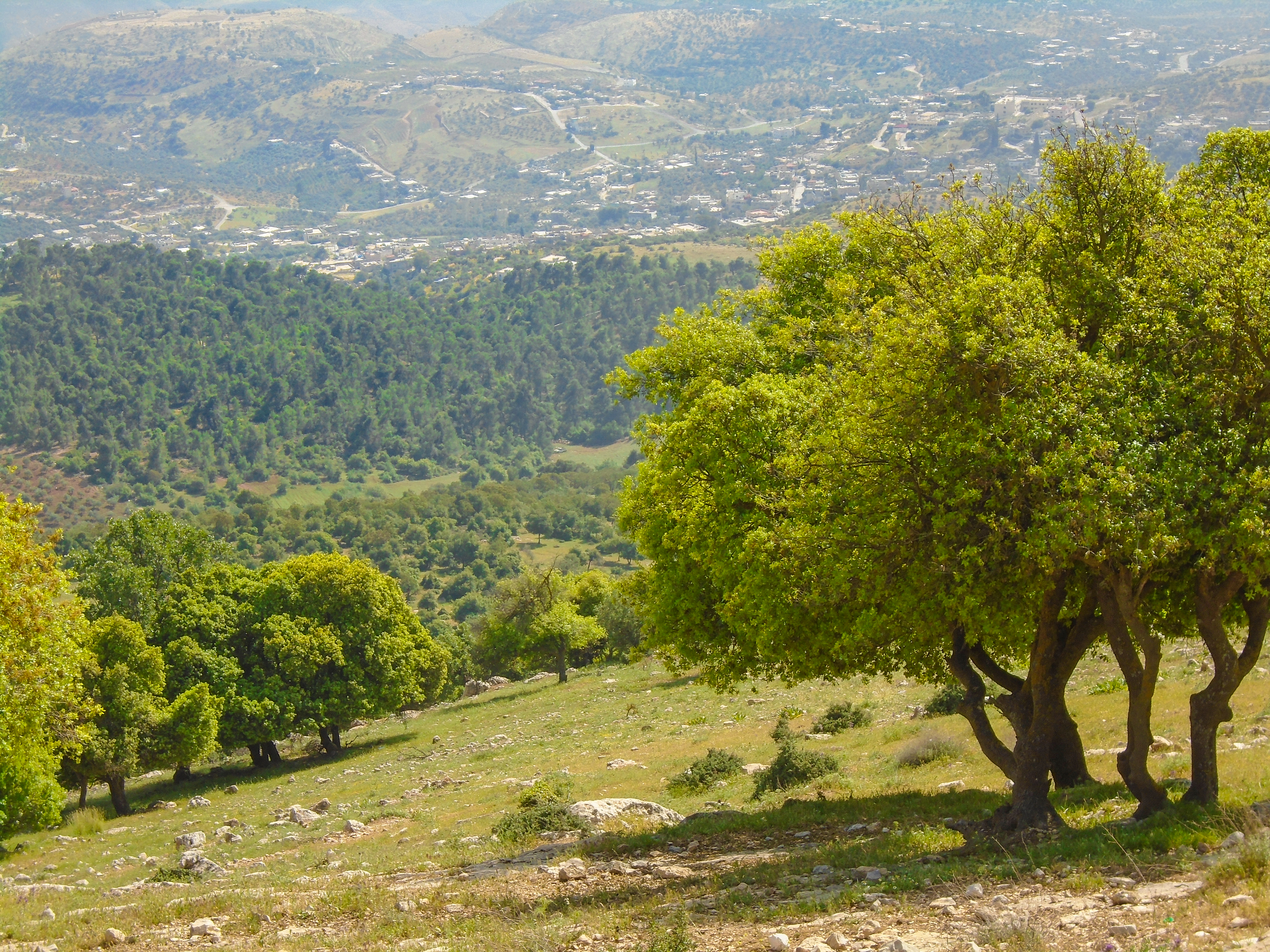 Side of Debbin reserve